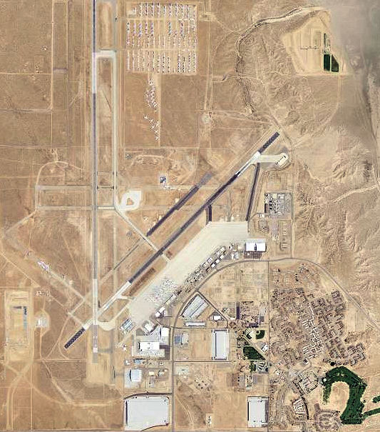 USGS digital orthophoto of George Air Force Base in California